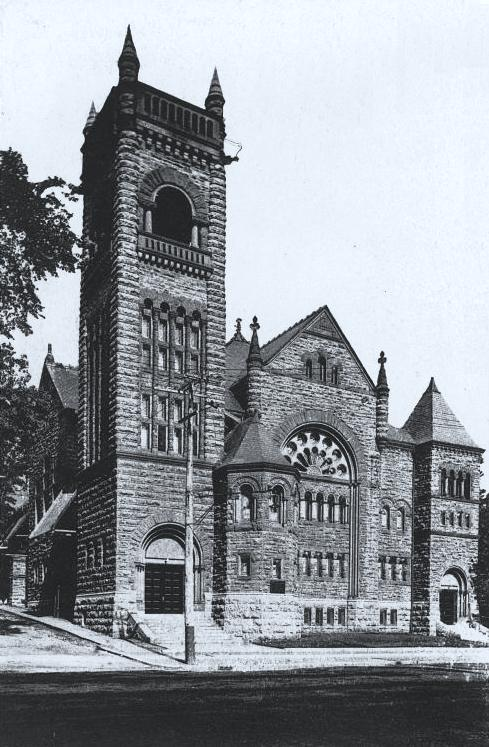 Print, Erskine and American Church, Sherbrooke Street, Montreal, QC, about 1910, Neurdein Frères, Ink on paper mounted on card - Collotype - 13 x 9 cm